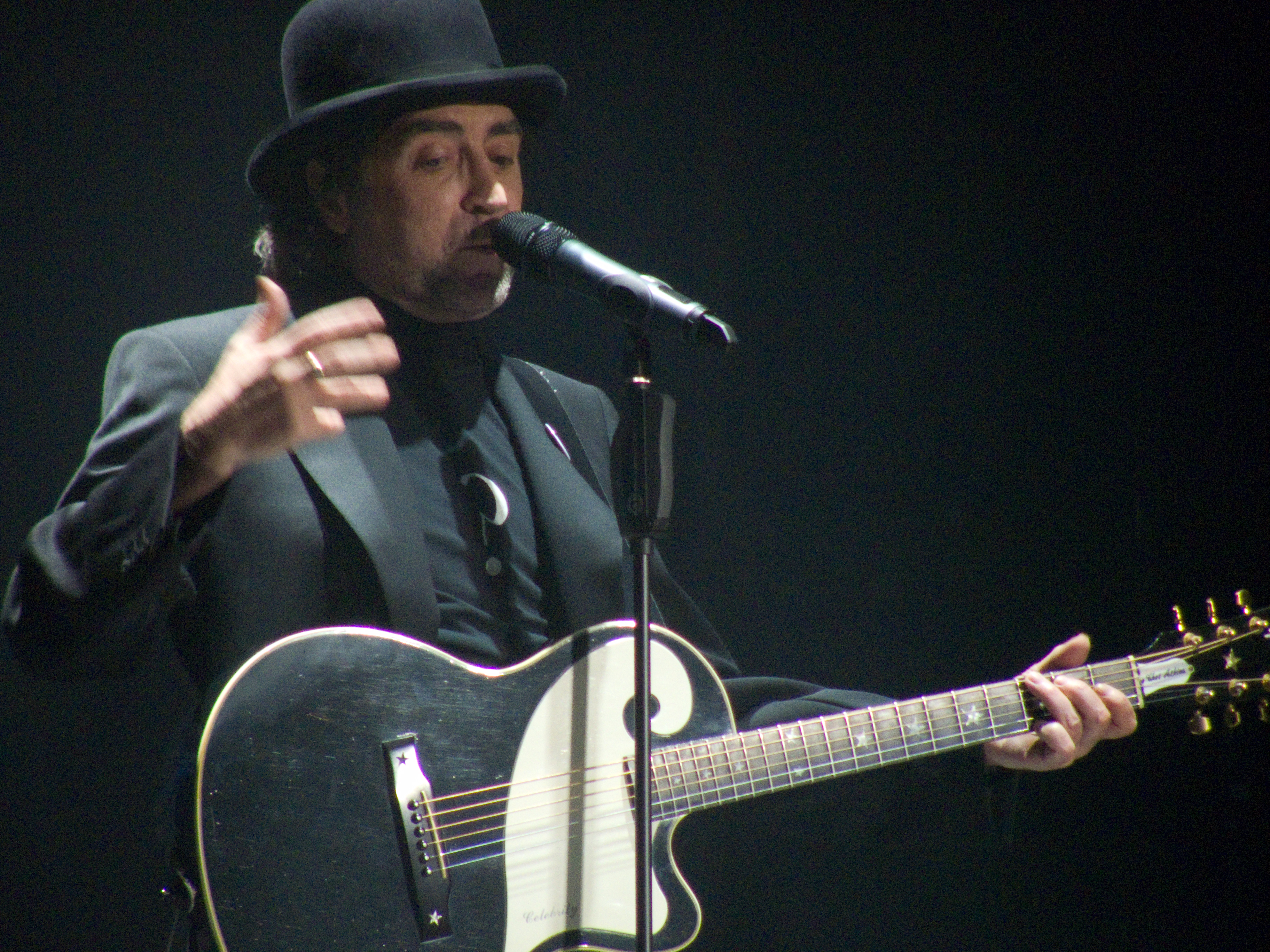 Joaquín Sabina during a concert of the "Vinagre y rosas" Tour in Madrid (Spain)